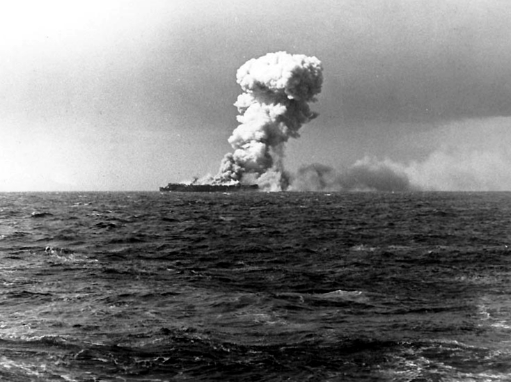 Loss of the U.S. Navy light aircraft carrier USS Princeton (CVL-23), 24 October 1944: Smoke rises from an explosion in Princeton's hangar deck at 1005 hrs. on 24 October 1944, shortly after she was hit by a Japanese bomb while operating off the Philippines.